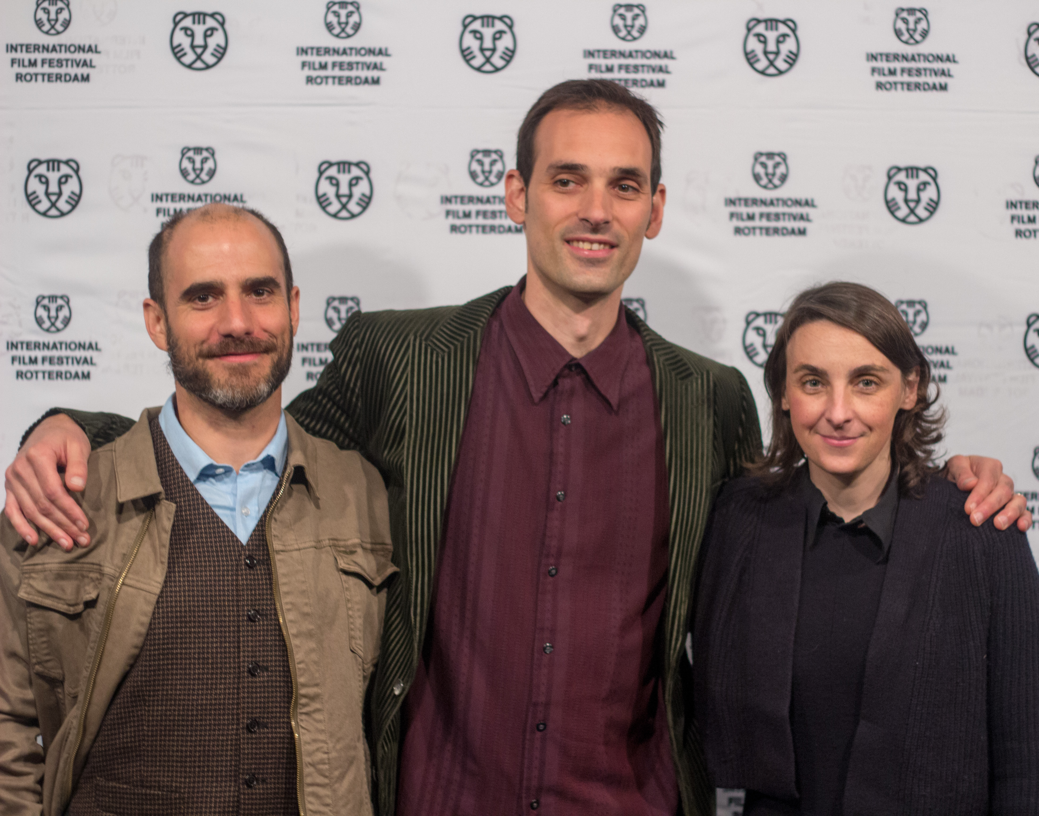 Niles Atallah, Lucie Kalmar, Rodrigo Lisboa at the premiere of Rey